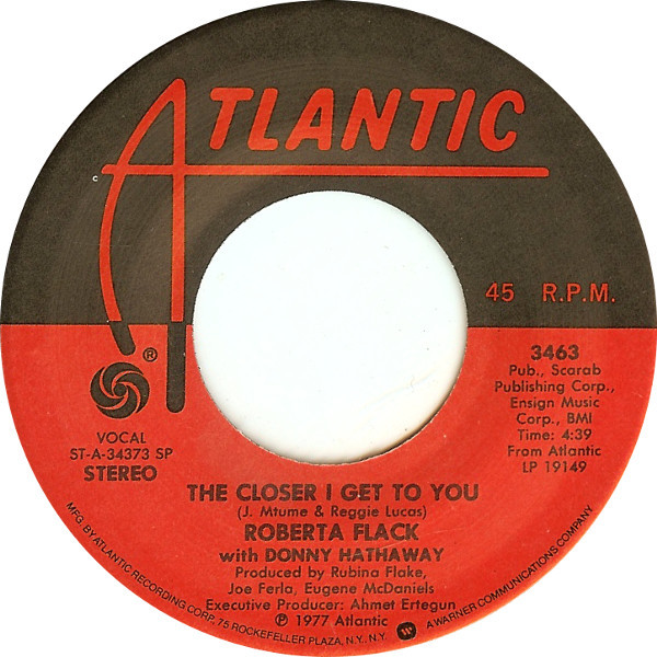 A-side label of "The Closer I Get to You" by Roberta Flack and Donny Hathaway (US vinyl, 3463)